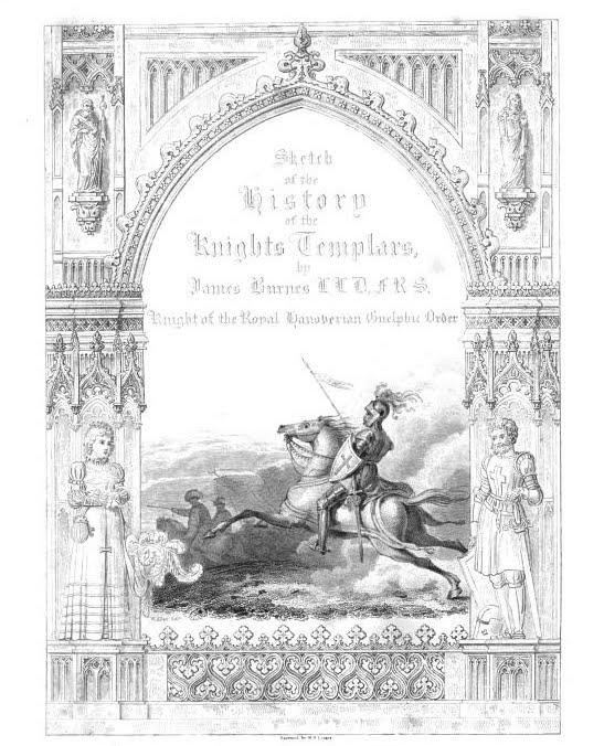 Frontispiece from Sketch of the history of the Knights templars (2nd edition, 1840) by James Burnes.